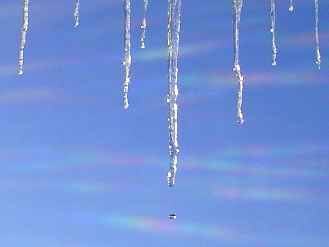 icicle